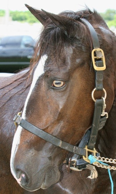 Yellow tiger type eyes on a Puerto Rican Paso Fino Mare